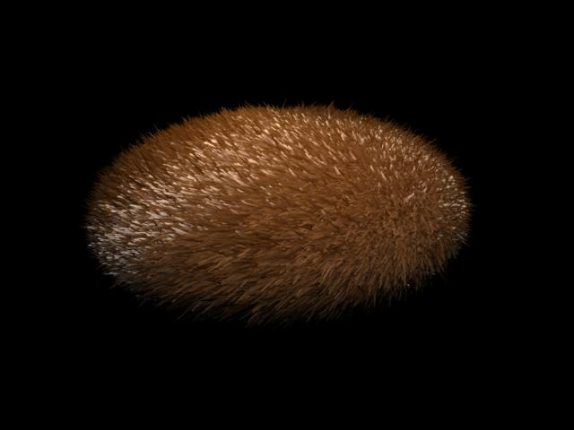 A Maya rendering of a tribble. Made by me.